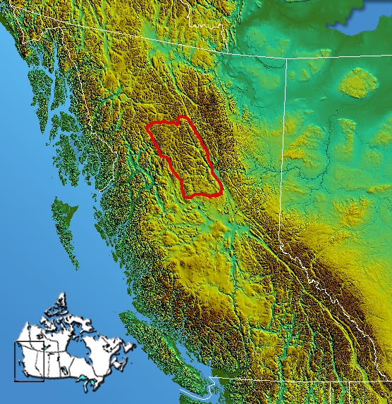 based on image already in Wikimedia Commons